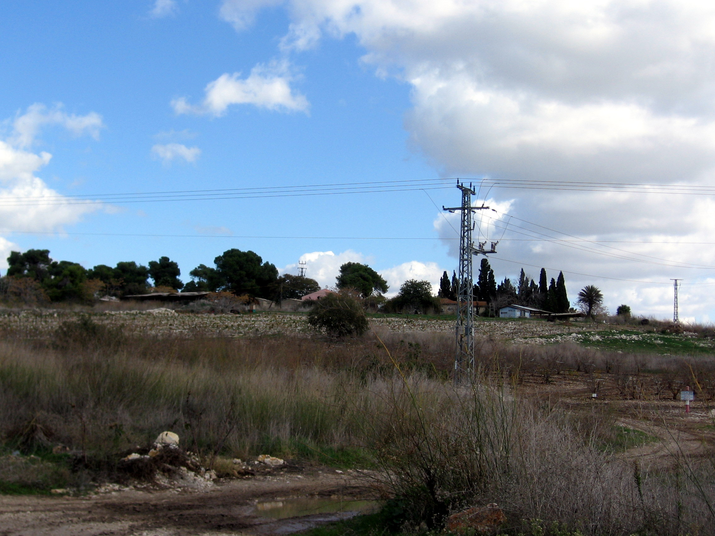 Givat Nili general view